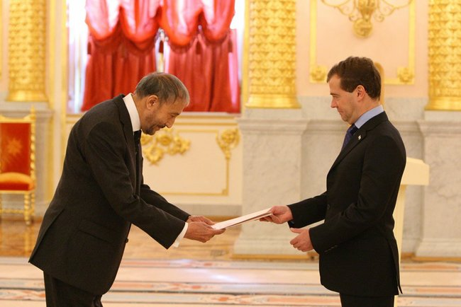 Ambassador of the Islamic Republic of Afghanistan Azizullah Karzai presents his letter of credence.